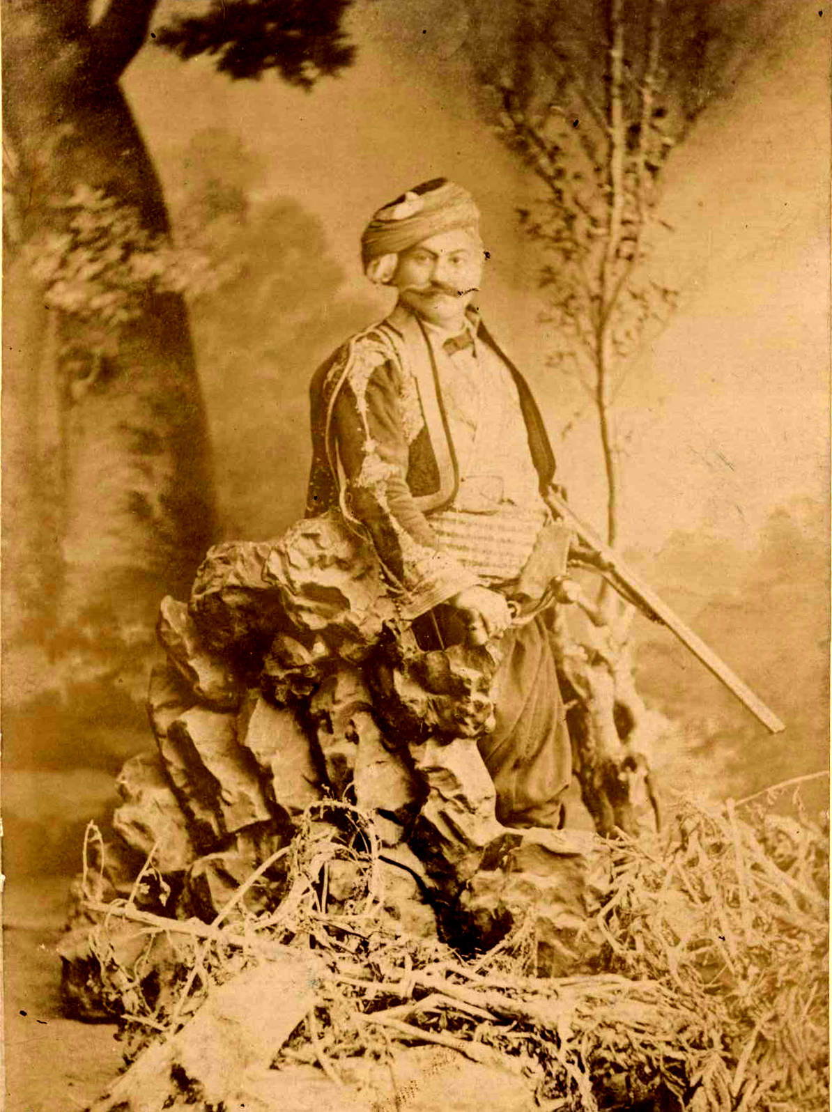 Filip Totyu as a participant in Second Bulgarian Legion in Belgrade, 1868.